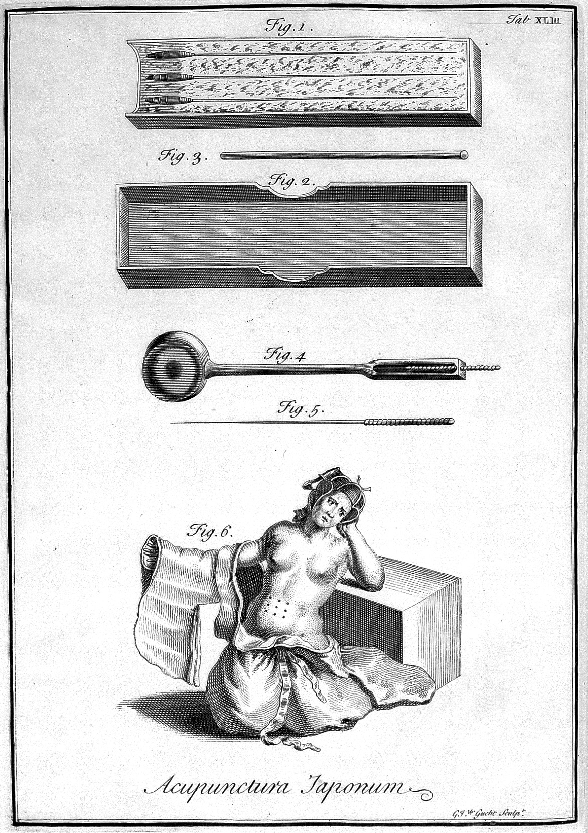 Appendix, , acupuncture equipment and points shown on a figure Rare Books Keywords: Acupuncture